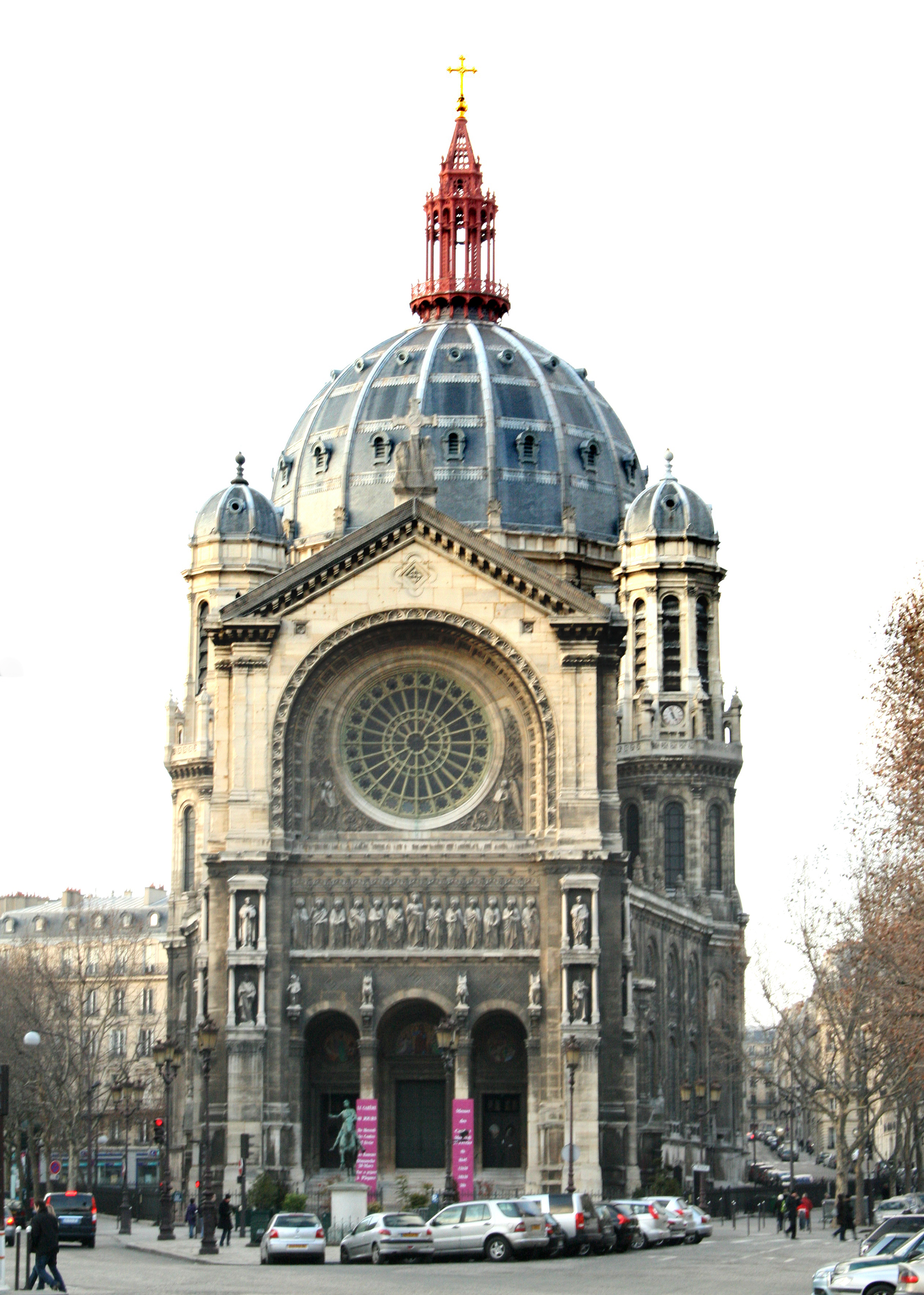 Church, Paris, France